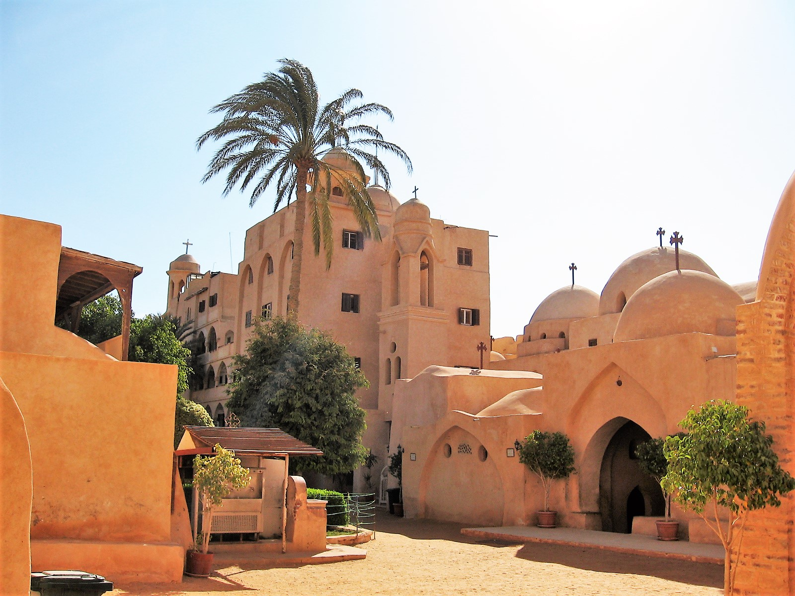 Deir as-Suriani Monastery in Wadi Natrun (Egypt)